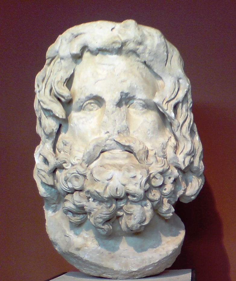 Head of Sarapis. Probably part of a colossal votive statue. The polishing on the face and the color on the hair and beard indicate that it was once gilded. Dated at 150-200 CE. (Archeological Museum of Thessaloniki)